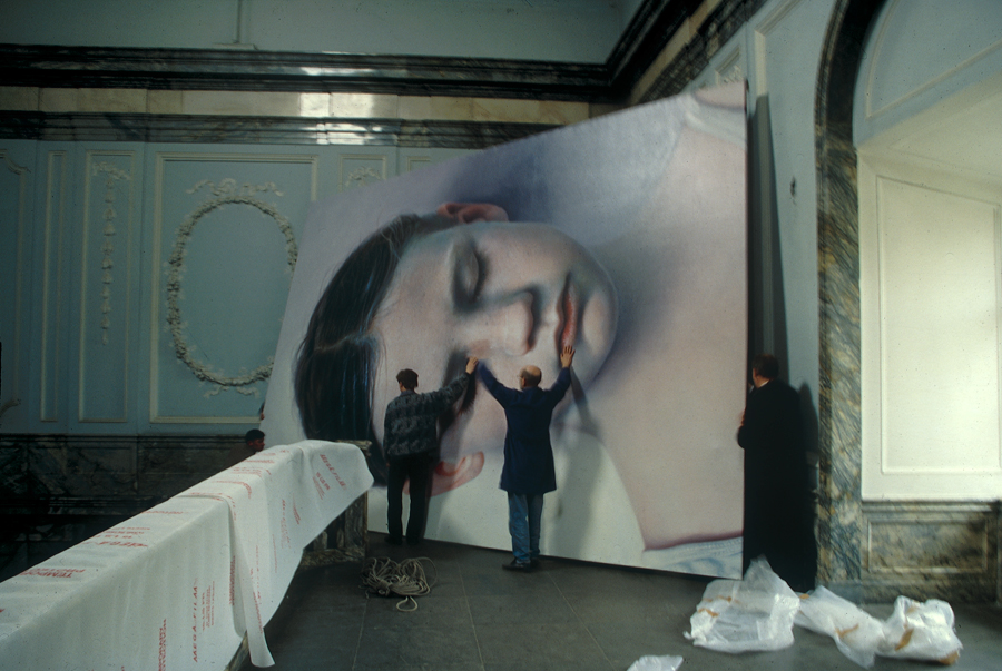 Hanging of the painting "Head of a Child" at the Gottfried Helnwein retrospective at the The State Russian Museum Saint Petersburg, 1997.